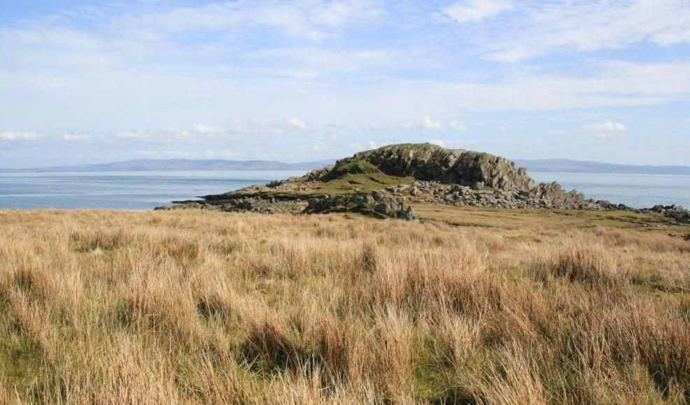 ruins of an ancient iron-age hill-fort on the isle of Jura